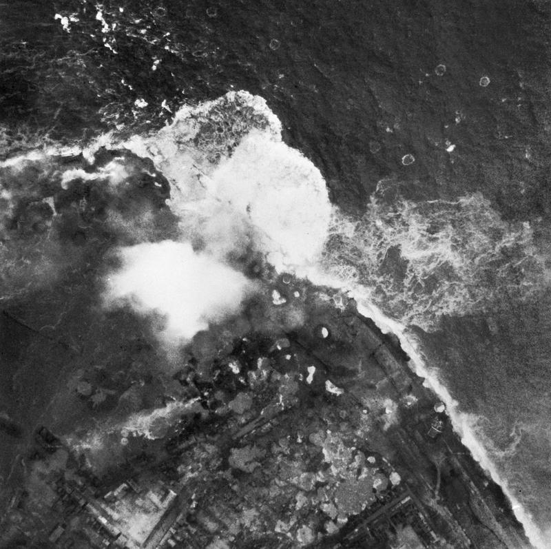 An aerial photograph of bombs exploding on the Walcheren dyke during RAF Bomber Command's raid on the island. 3 October 1944